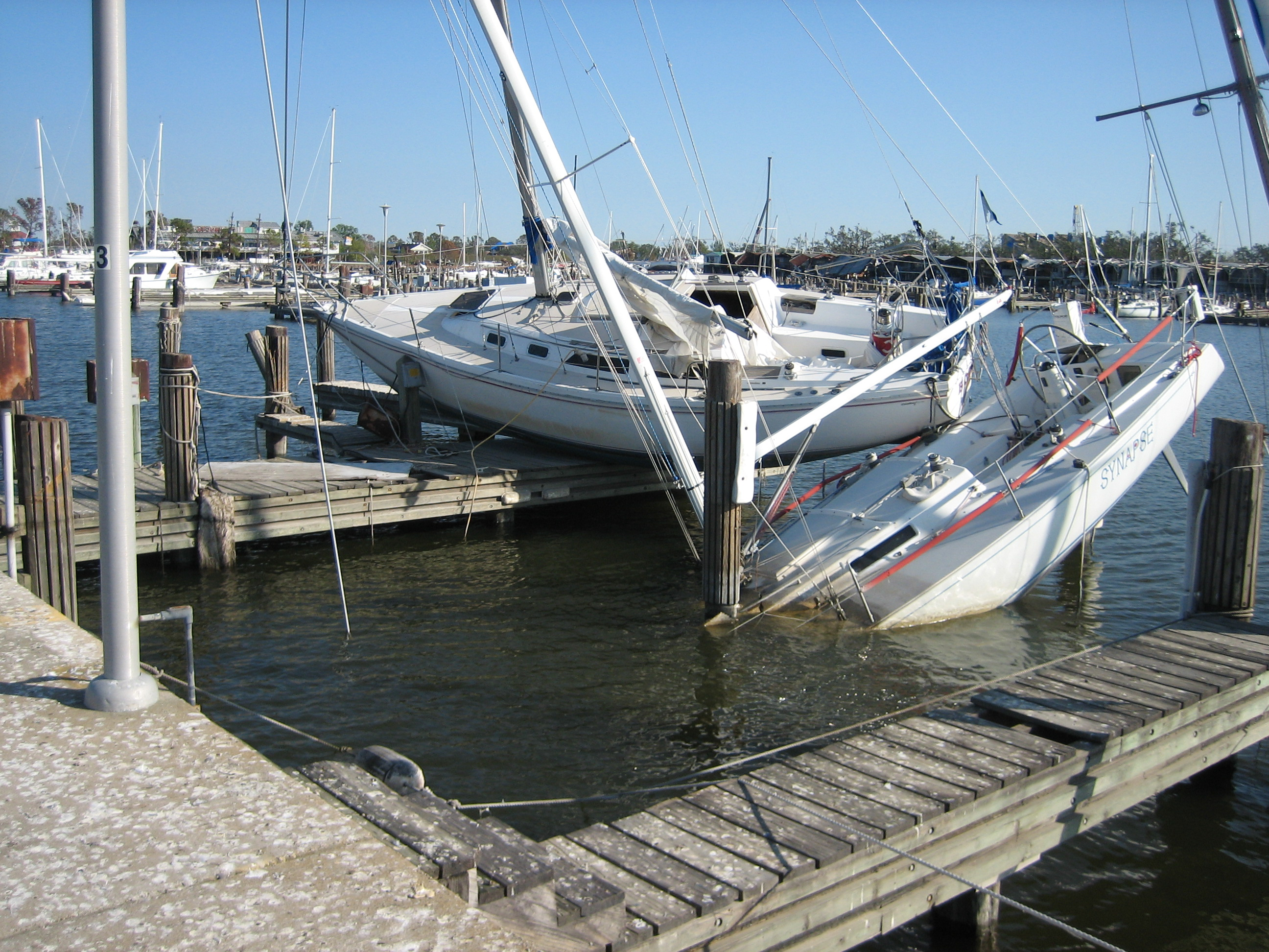 New Orleans after Hurricane Katrina: Sunk yacht, West End Marina Photo by Infrogmation